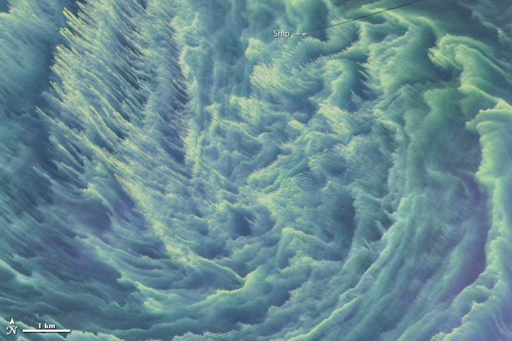 On August 11, 2015, the Operational Land Imager (OLI) on Landsat 8 captured this false-color view of what appears to be a large bloom of cyanobacteria swirling in the Baltic Sea. The image was composed from bands 4 (640-670 nanometers), 3 (530-590 nanometers), and 2 (450-510 nanometers) for the red, green, and blue components of the image, respectively. Band 8 (500-680 nanometers) was used to sharpen the image.